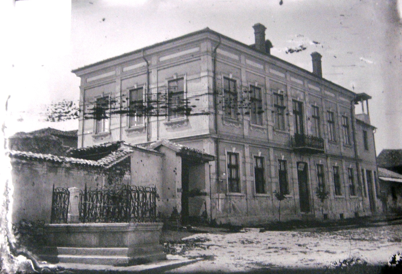 School "Sv. Bogoroditsa "in Bitola, 1898- 1912 This media file is produced by Wikipedian in Residence in Category:Wikipedian in Residence at DARM in 2016.